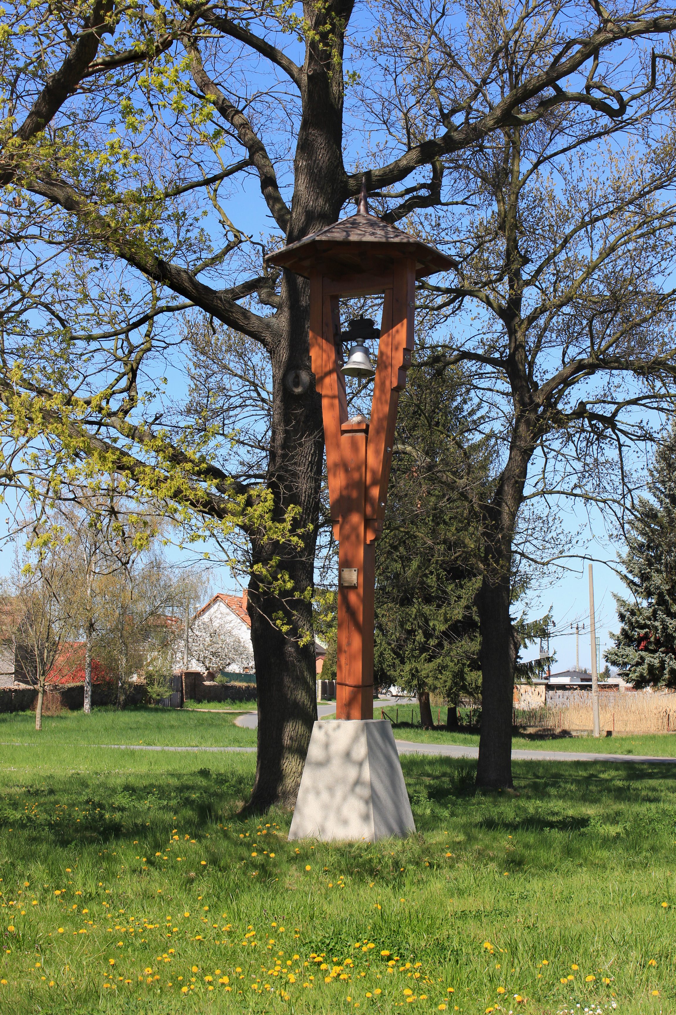 Bell tower in Ohrada, part of Nová Ves I, Czech Republic.